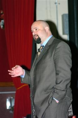 Dr Ergun M. Caner addresses the "War Eagles" during military instruction at the MCAS New River Theater on Apr 15. Caner conducted two periods of instruction regarding misconceptions and strategic protocols of a jihad. Photo by: Lance Cpl. Michael Angelo "This photograph is considered public domain and has been cleared for release. If you would like to republish please give the photographer appropriate credit."